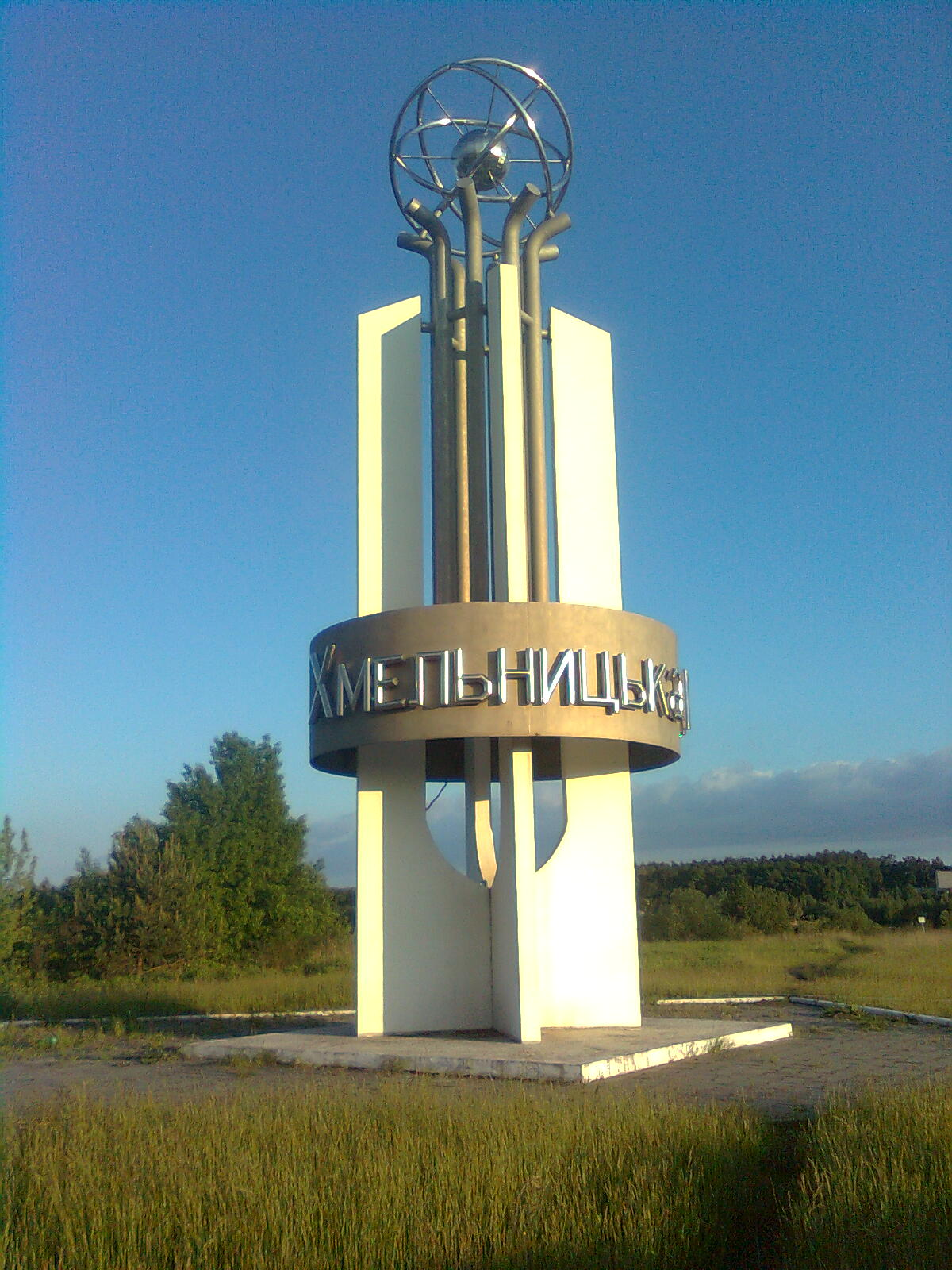 Stele: «Khmelnitskiy NPP»